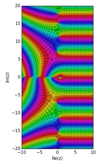 Hurwitz zeta function corresponding to q=1/3. It is generated as a Matplotlib plot using a version of the Domain coloring method. [1